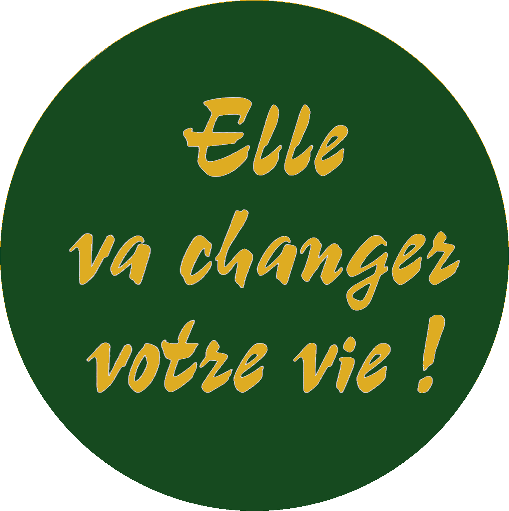 Slogan from the French DVD box of Le Fabuleux Destin d'Amélie Poulain, translating as "She Will Change Your Life!". Recolorized version to match some of the feeling of the original yellow-and-green design.